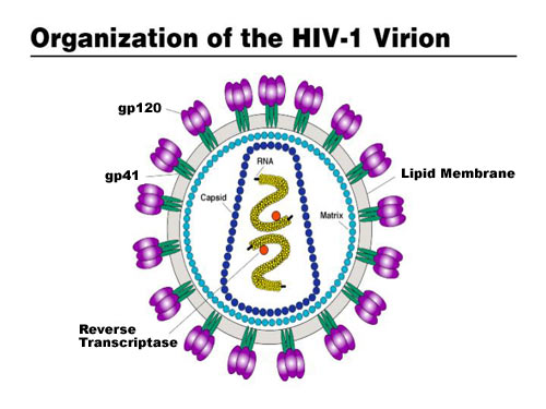 Organization of the HIV-1 Virion